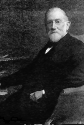 Charles Churchill, US-born British machine tool importer and manufacturer, pictured prior to 1916, the year of his death